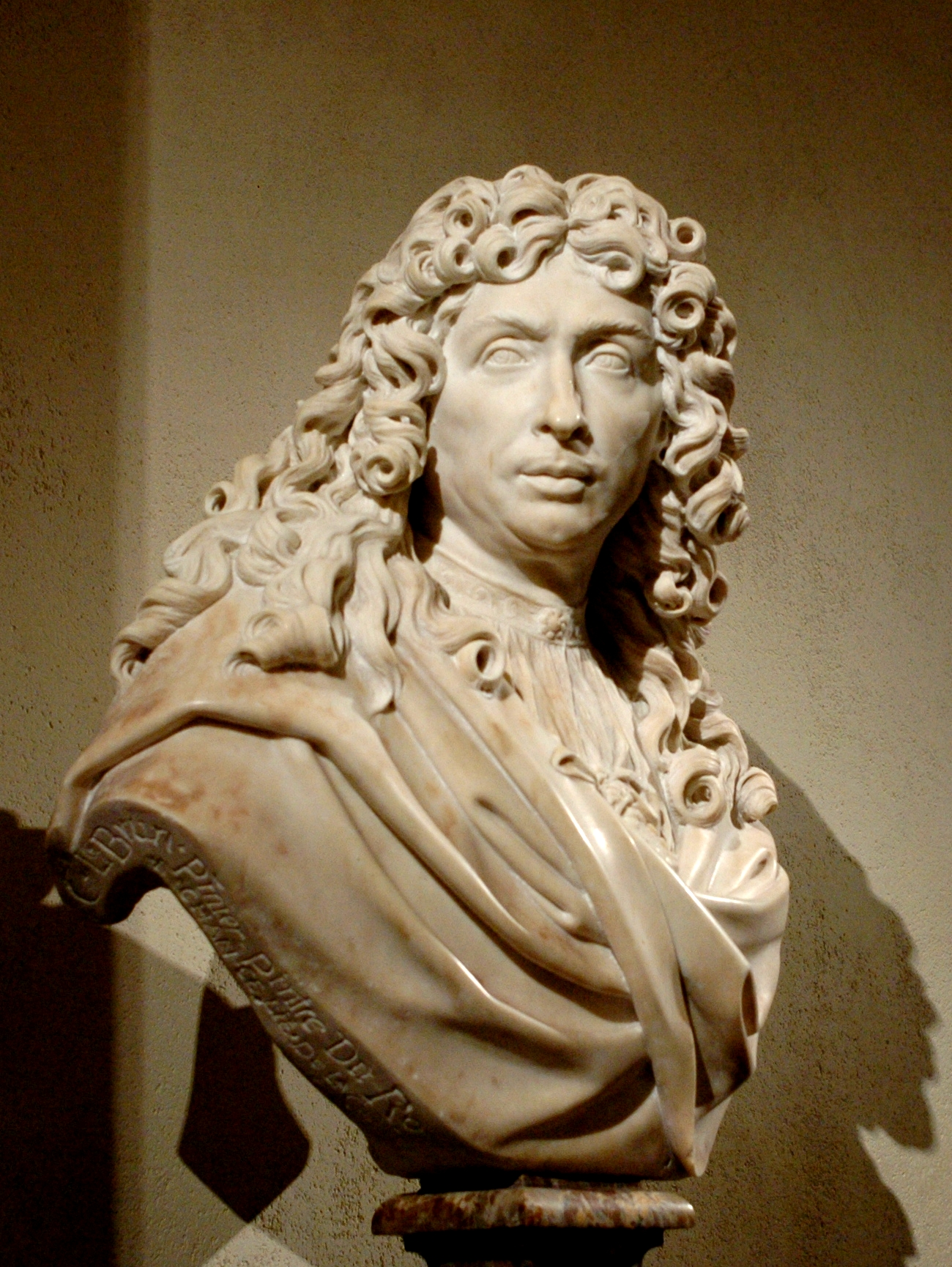 Bust of Charles Le Brun (1619-1690) by Antoine Coysevox. Marble, 1679.